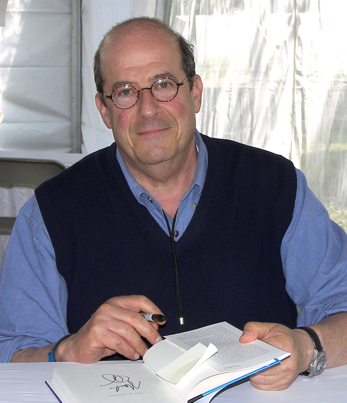 Jon Katz at the 2008 Texas Book Festival, Austin, Texas, United States.